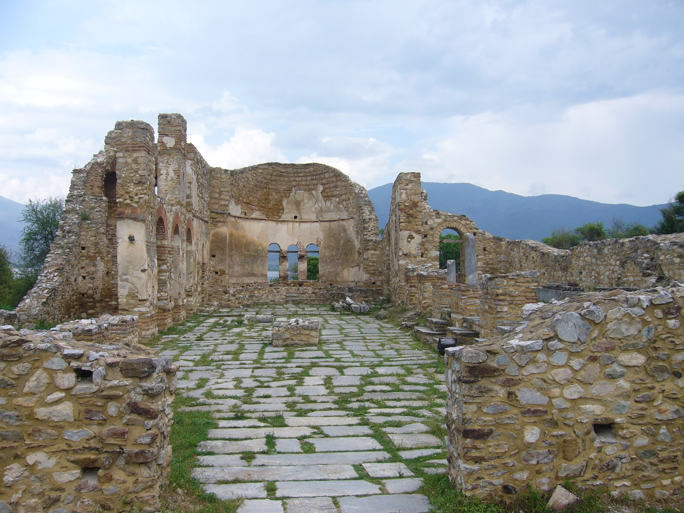 Church of Agios Achilios, Greece